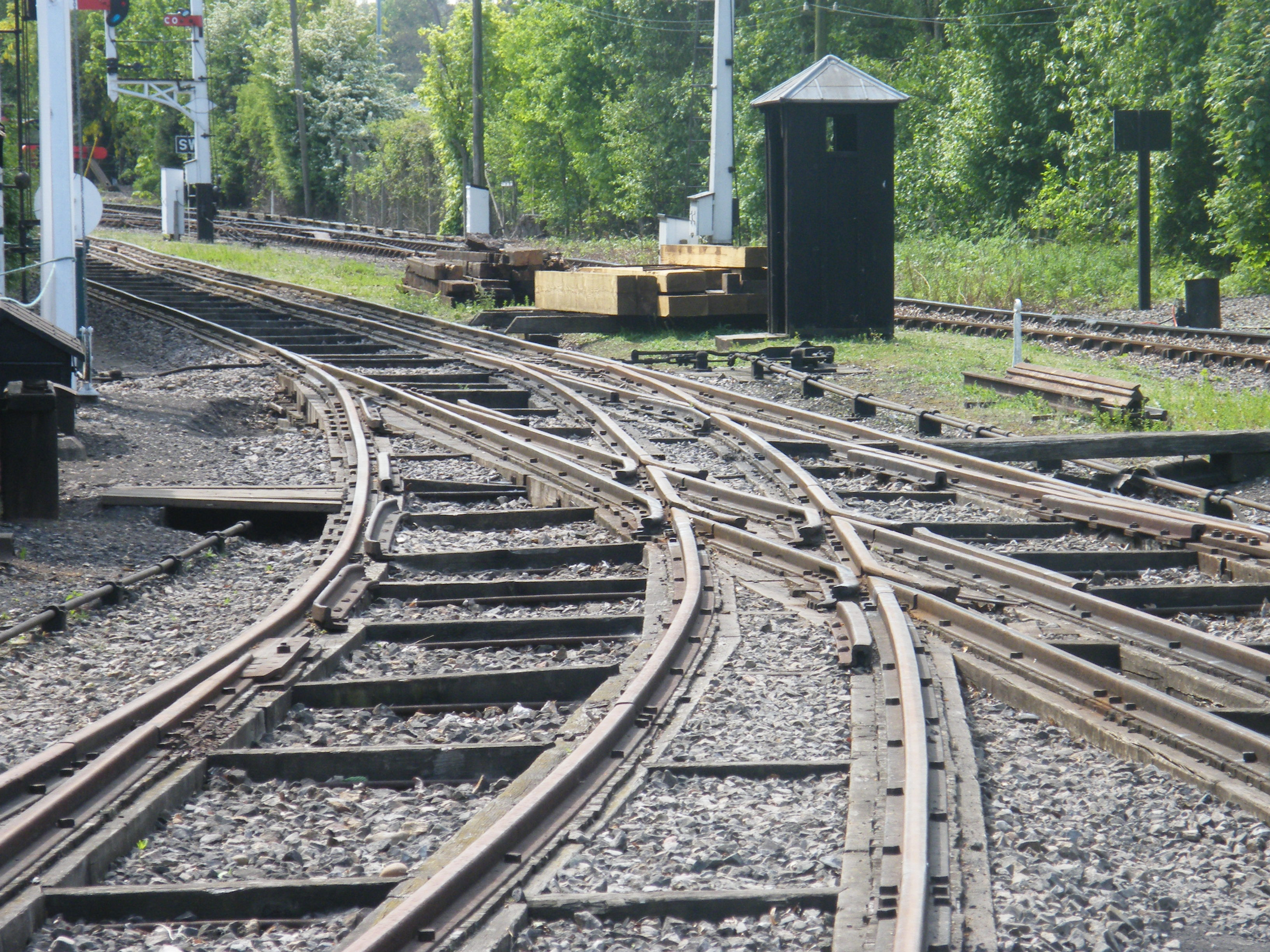 Mixed gauge pointwork and track at Didcot Railway Museum May 2011